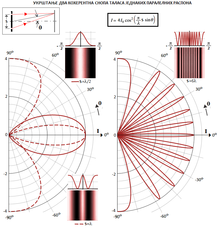 УКРШТАЊЕ ТАЛАСА